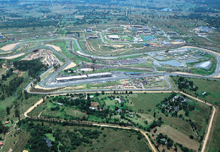 Kyalami Grand Prix Circuit